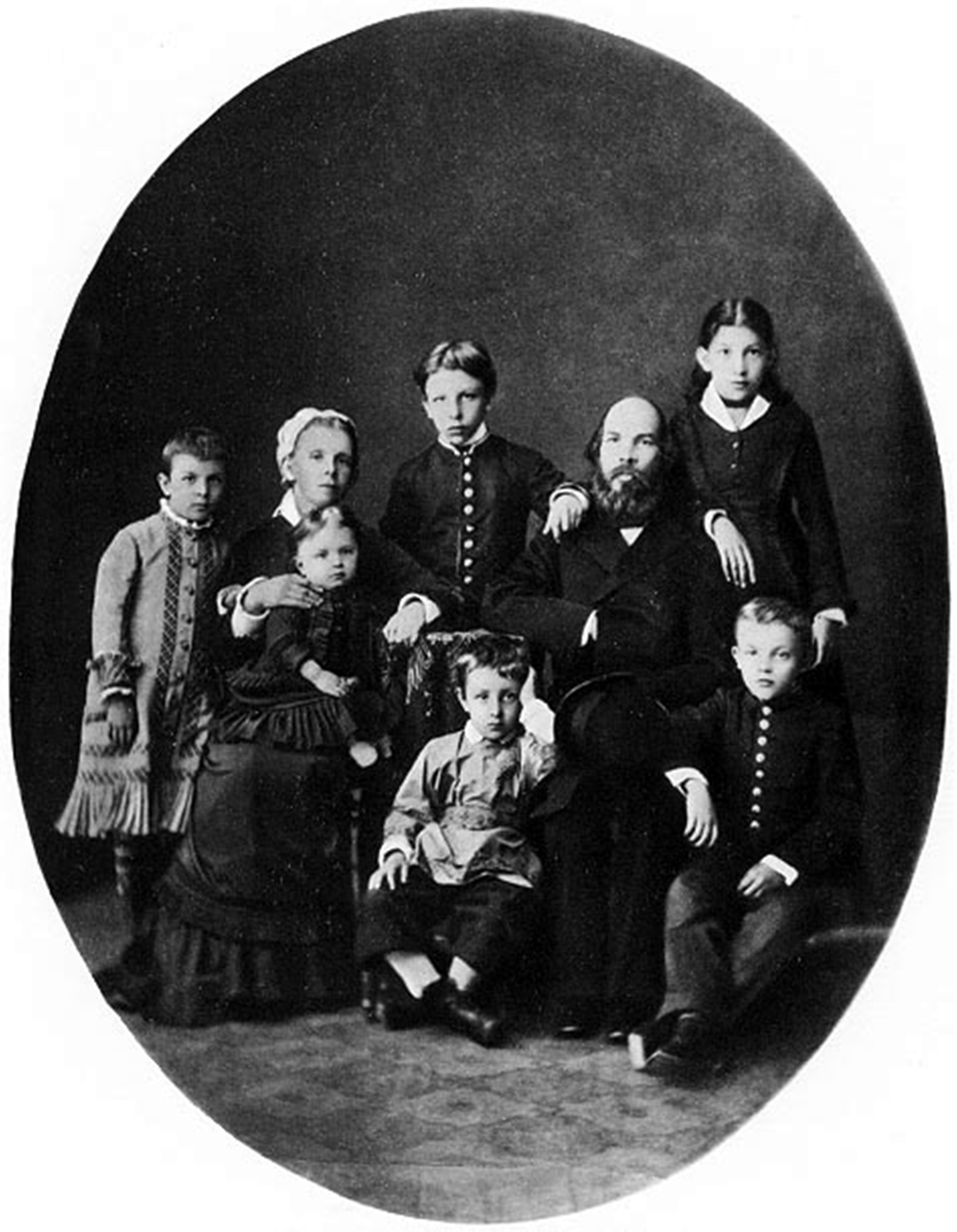 The Ulyanov family: Maria Alexandrovna, Ilya Nikolaevich and their children